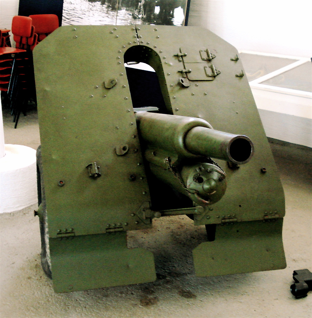 Soviet 76.2 mm mountain gun M1938. This particular gun was produced in the Frunze factory in Leningrad in 1940-1941. Photo taken on June 18, 2006. Source: Photo by me, User:Balcer.